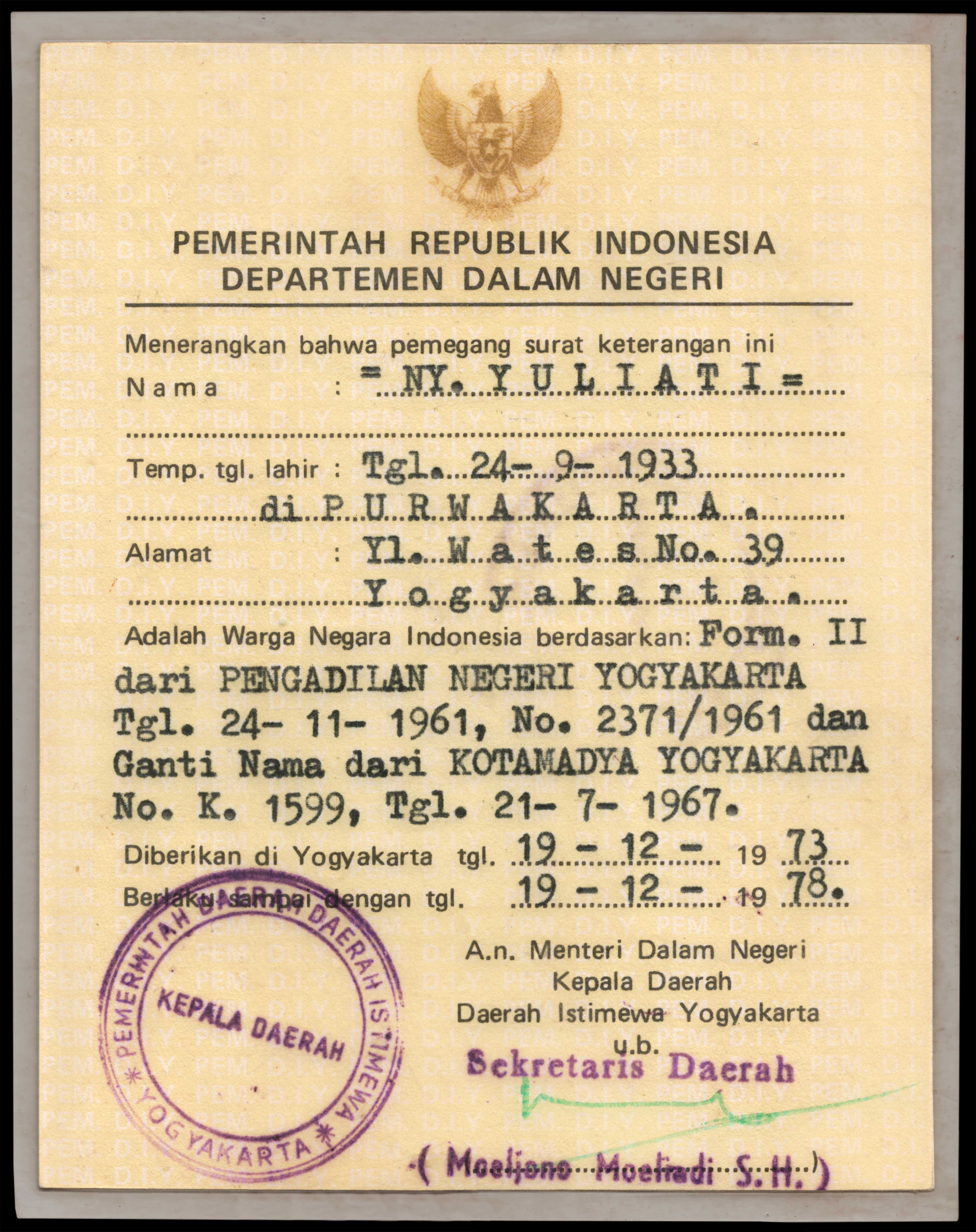 Surat Bukti Kewarganegaraan Indonesia from 1973, reverse. Translation: Government of the Republic of Indonesia Department of Domestic Affairs Clarifies that the holder of this certificate of proof Name: Mrs. Yuliyati Place/Date of Birth: Date 24-9-1933 in PURWAKARTA Address: 39 Wates St. Yogyakarta Is a Citizen of Indonesia based on Form II from the STATE COURT OF YOGYAKARTA Dated 24-11-1961, No. 2371/1961 and Name Change from the Municipality of Yogyakarta No. K. 1599, Dated 21-7-1967. Issued in Yogyakarta on 19-12-1973 Valid until 19-12-1978 In the name of the Minister of Domestic Affairs The Regional Leader of The Special Administrative Region of Yogyakarta in his name [Stamped] Regional Secretary Moeljono Moeliadi LLB